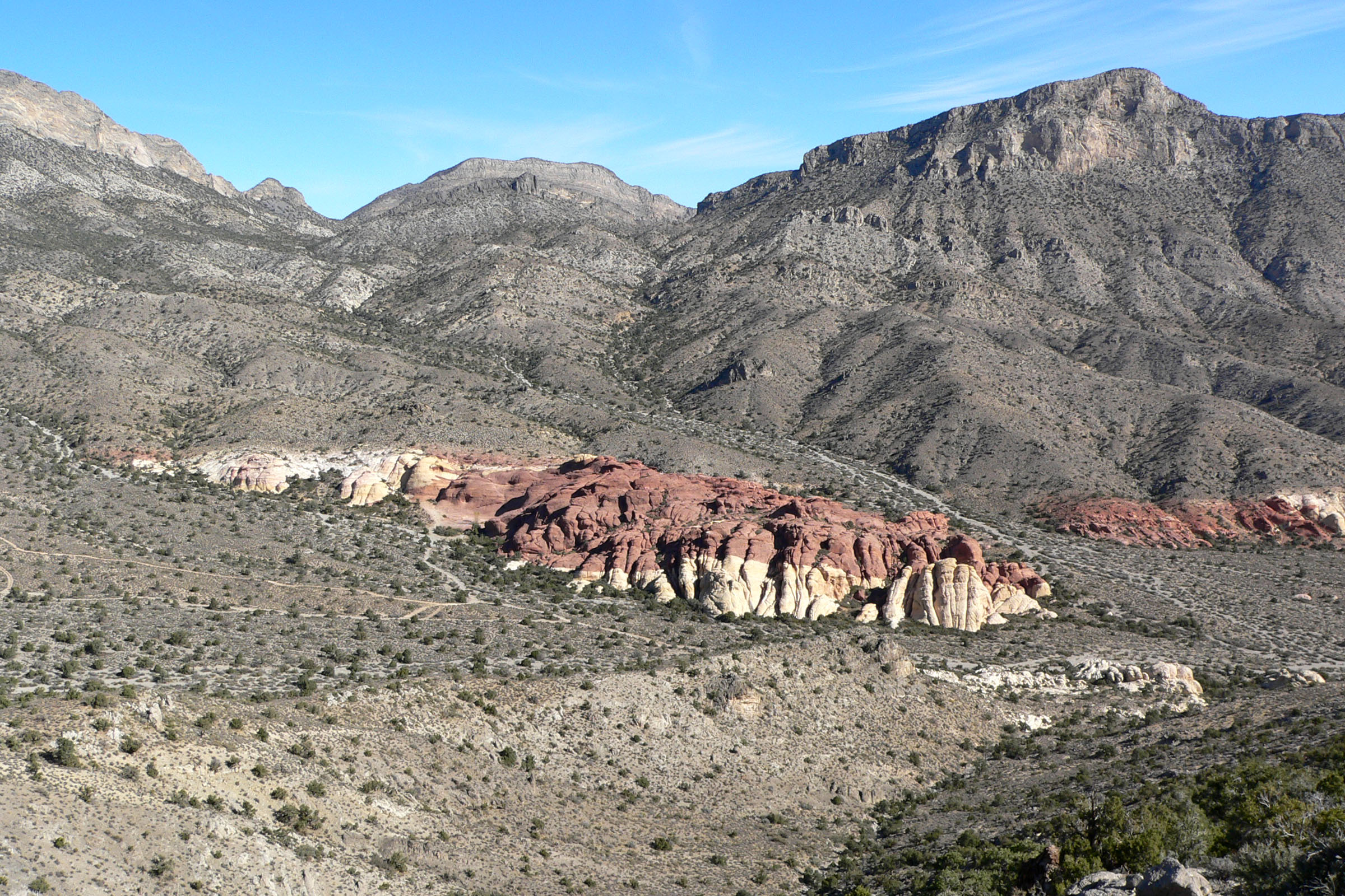 Brownstone Basin seen from Turtlehead Peak, Spring Mountains, southern Nevada